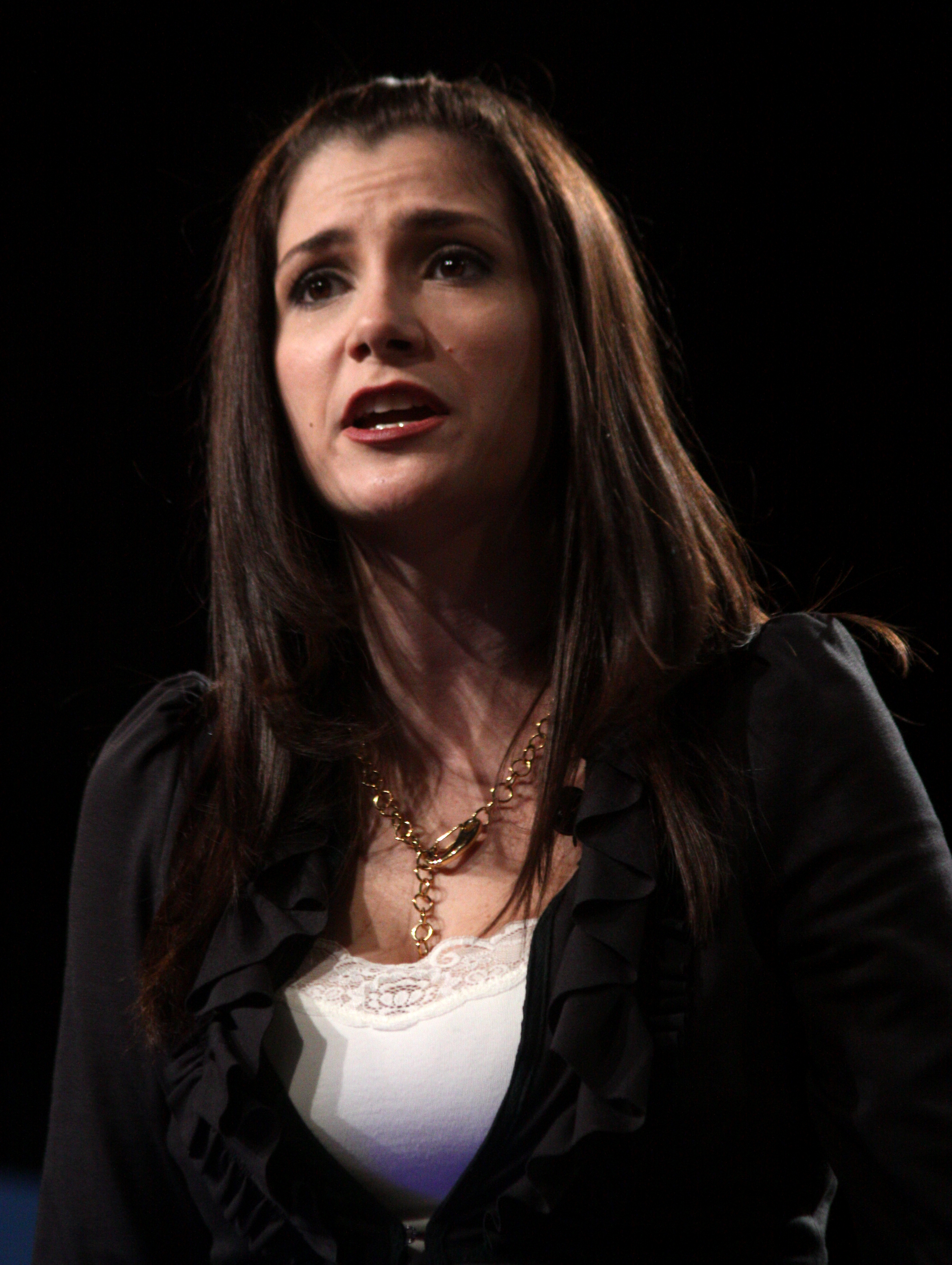 Original description on : Radio host Dana Loesch speaking at the Tea Party Patriots American Policy Summit in Phoenix, Arizona.